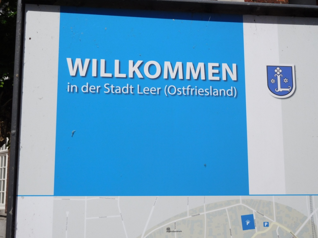 This photo was taken in the summer of 2017 in the East Frisian (German Ostfriesland) city, Leer. Translated, it says: Welcome to the City of Leer, East Frisia.